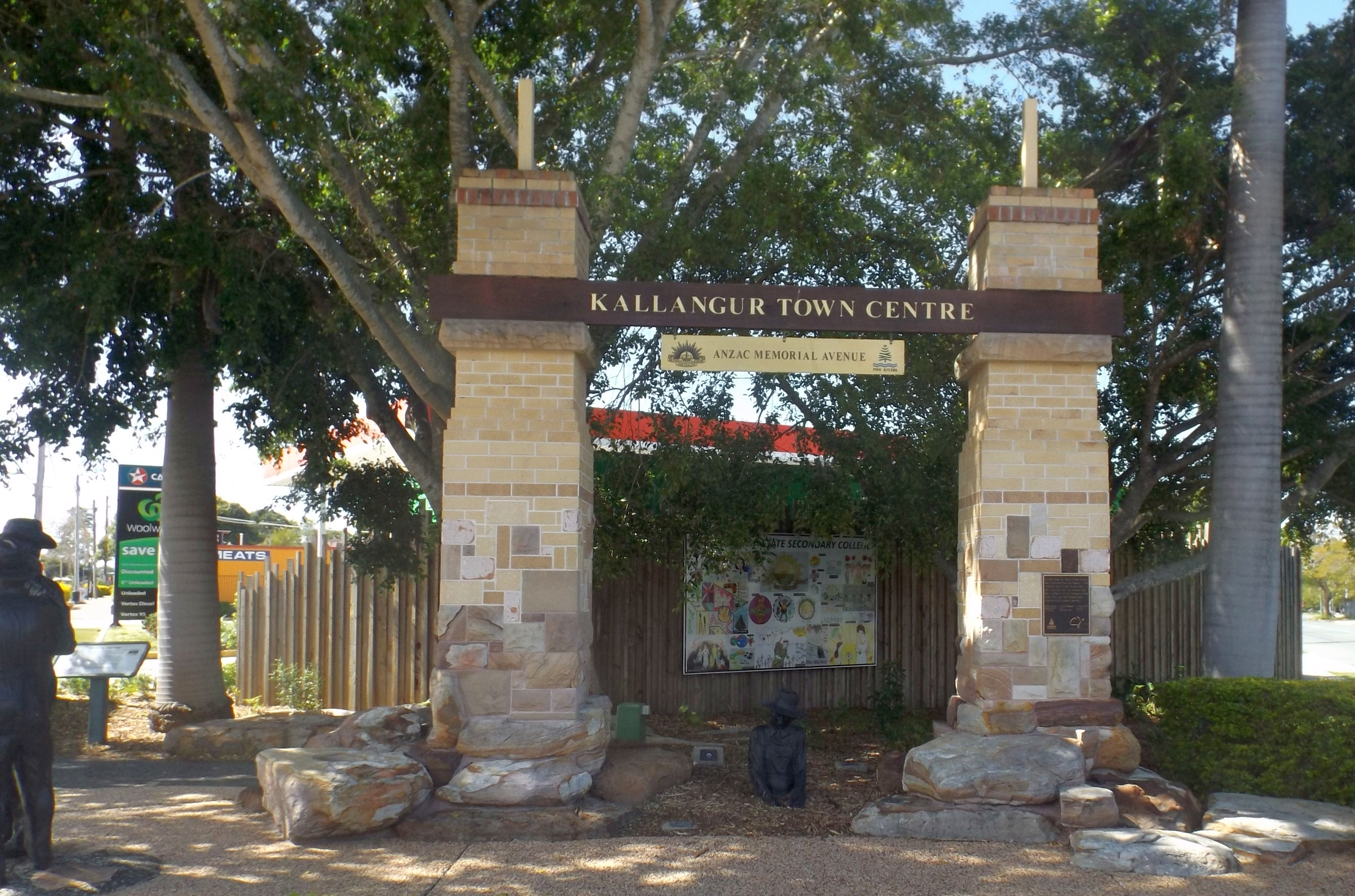 Photo of the Anzac Avenue Memorial at the intersection of Goodfellows Road and School Road in Kallangur, Moreton Bay Region, Queensland, Australia.